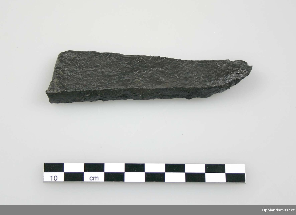 Iron,156 g. Archaelogical iron object from Uppsala in Sweden 2004.